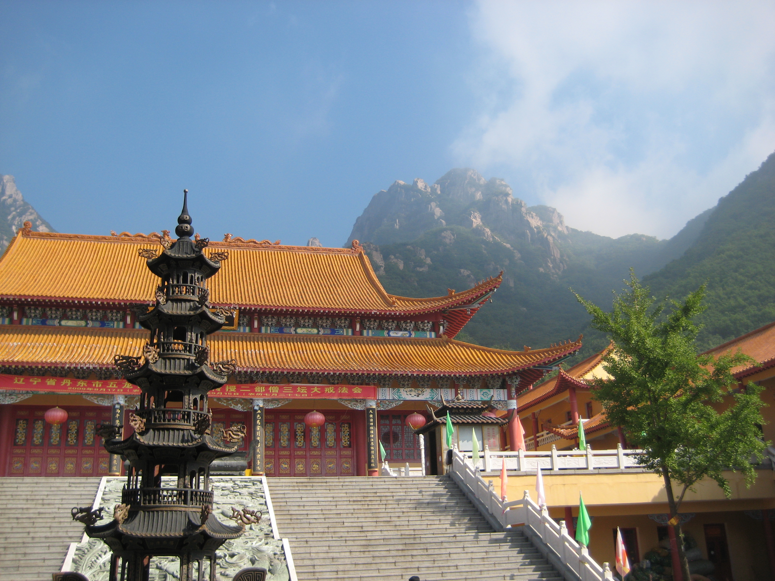 Wu Long Shan, Five Dragon Mountain